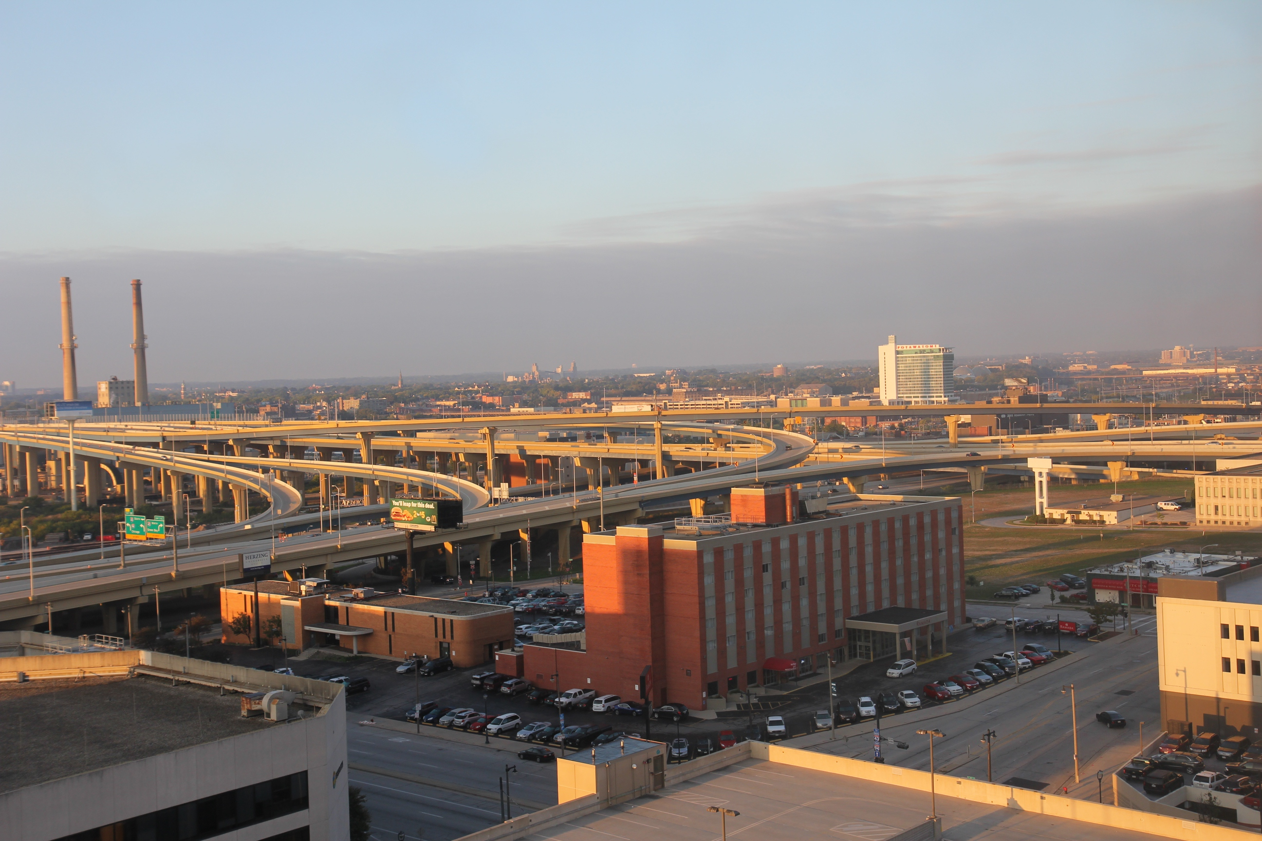 Looking southwest at the Marquette Interchange from a nearby skyscraper.